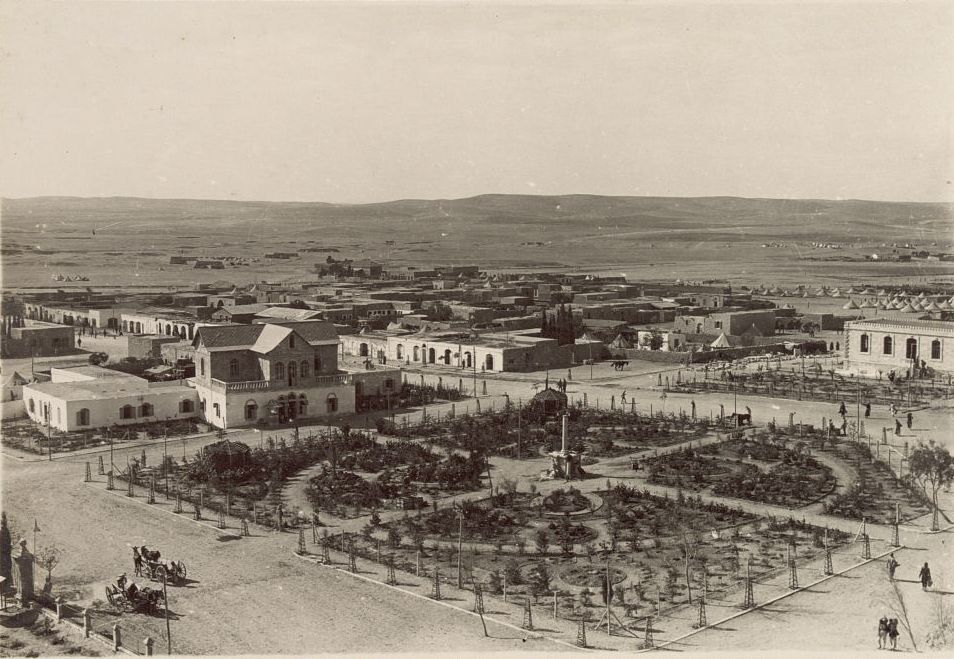 General view of Beersheba, 1917